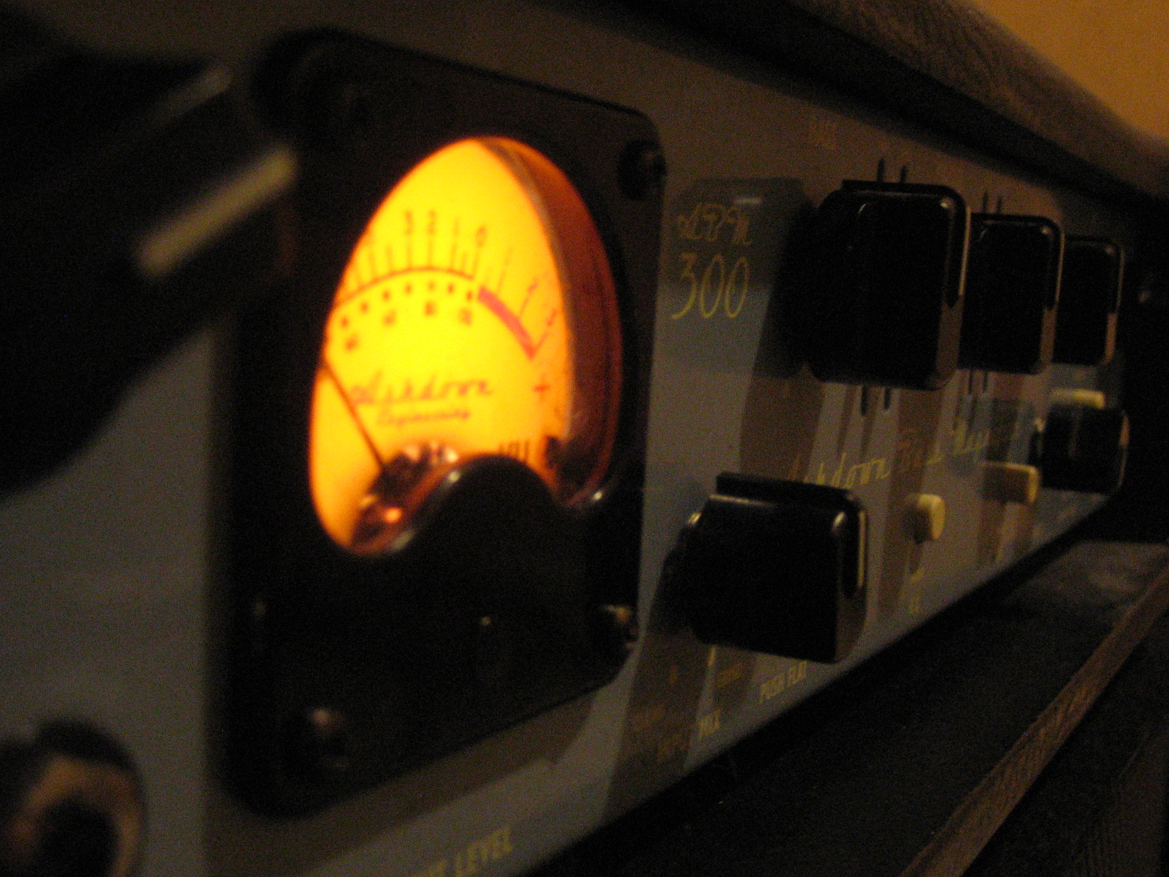 Ashdown ABM-300 Bass Amplifier Flickr album: When the Muse Strikes She strikes you with the back of her hand to wake you from the doldrums of life. Be from your mind to the creative pens at hand. Listen with your heart and see with reflection.